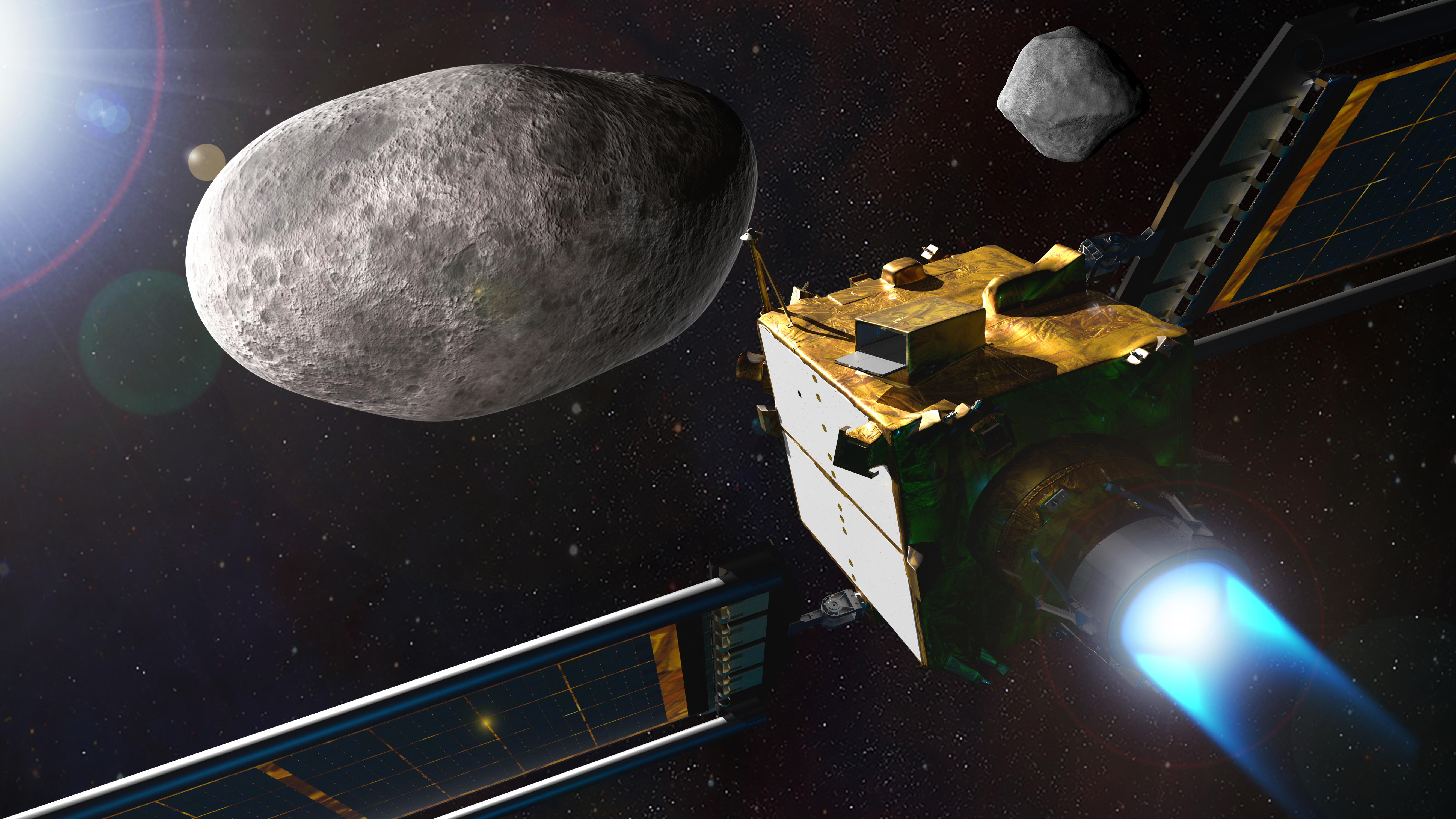 Illustration of DART, from behind